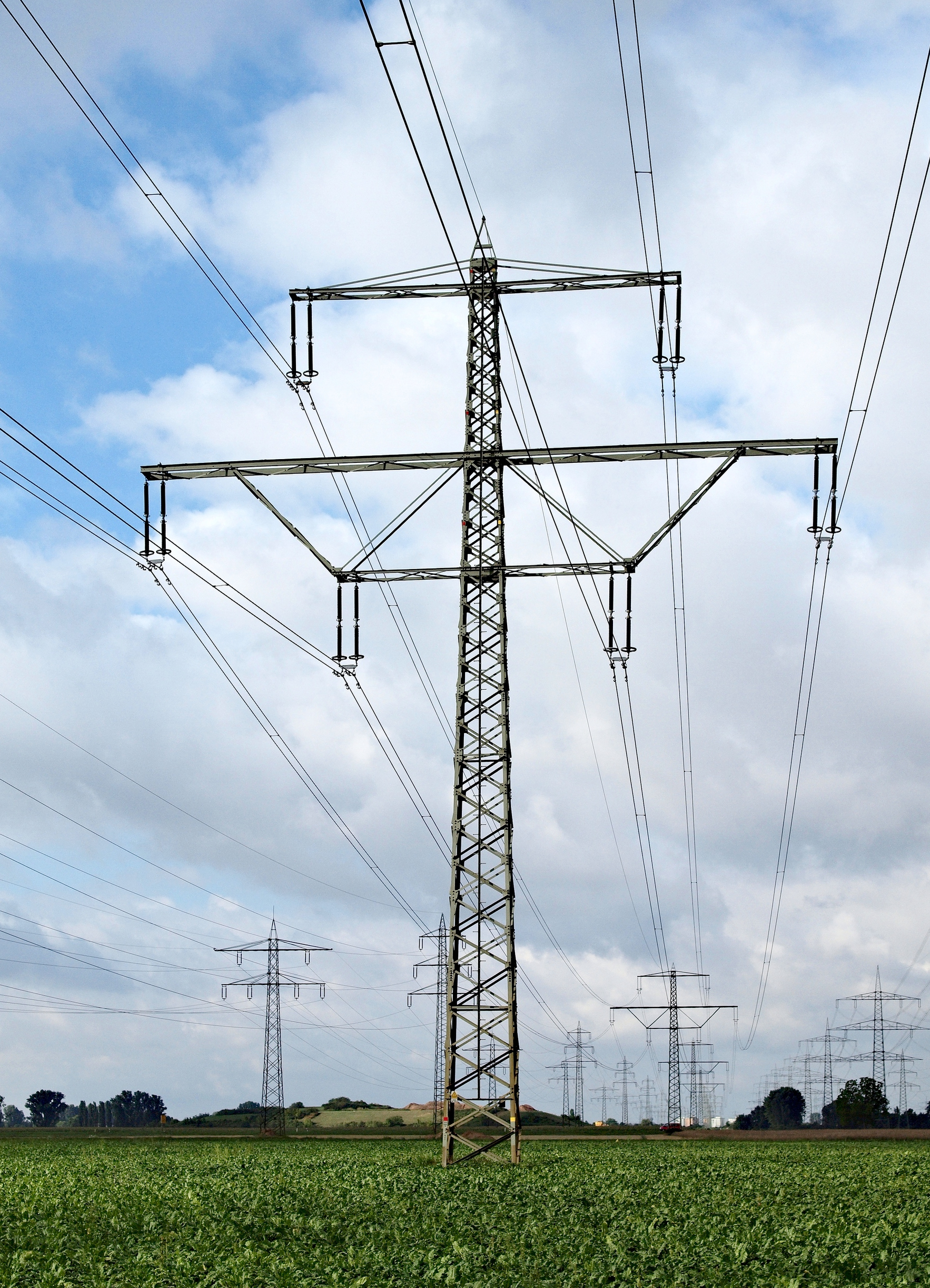 C1 type pylon of the Nord-Süd-Leitung, Germany; line no. 4505, pylon no. 226